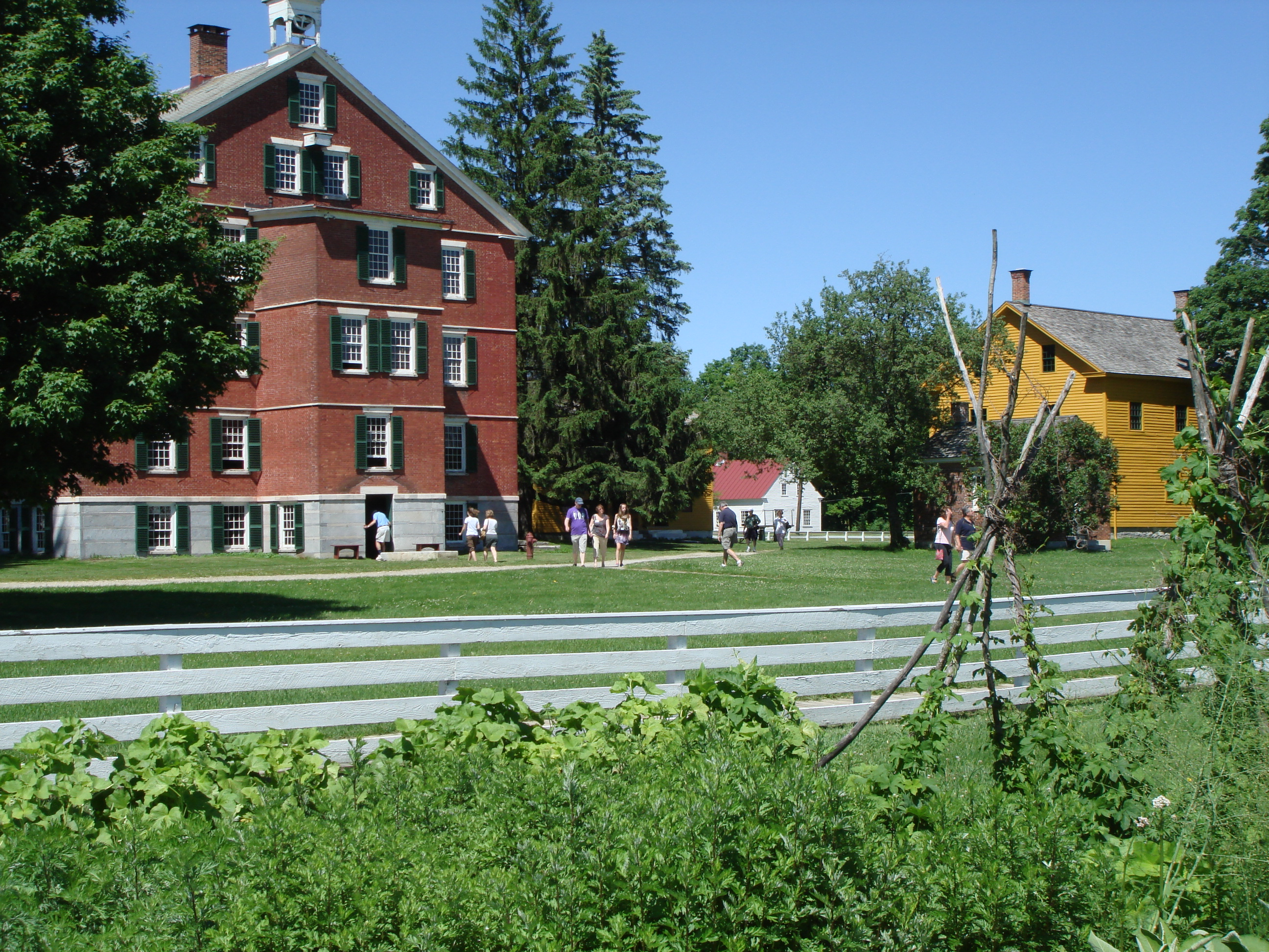 Visitors to Hancock Shaker Village can learn about the daily life and work of the Shakers, and how the sexes co-existed, through the room settings and interpretation of the Brick Dwelling.